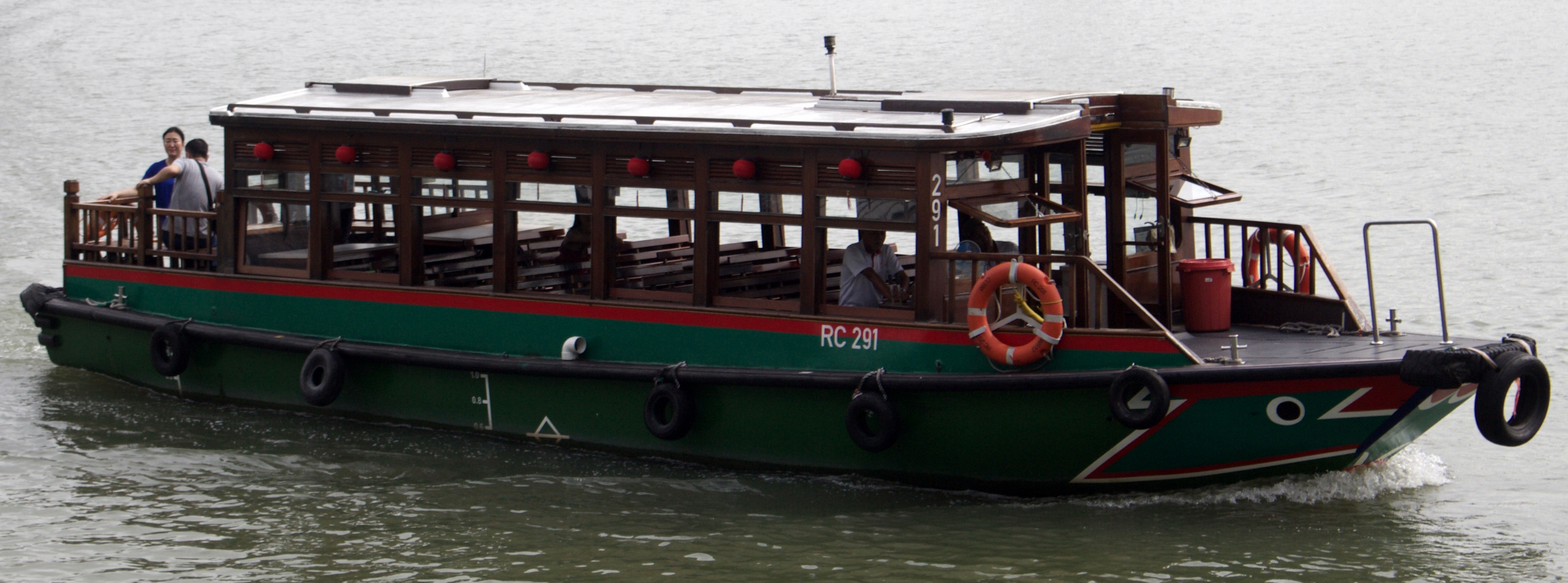 Singapore bumboat. These tourist-oriented bumboats cruise the Singapore River, offering point-to-point rides starting from $3 and cruises with nice views of the CBD skyscraper skyline starting from $13. In addition, they also shuttle passengers from Changi Village to Pulau Ubin ($2.50 one-way), a small island off Singapore's northeast coast which is about as close as Singapore gets to unhurried rural living.